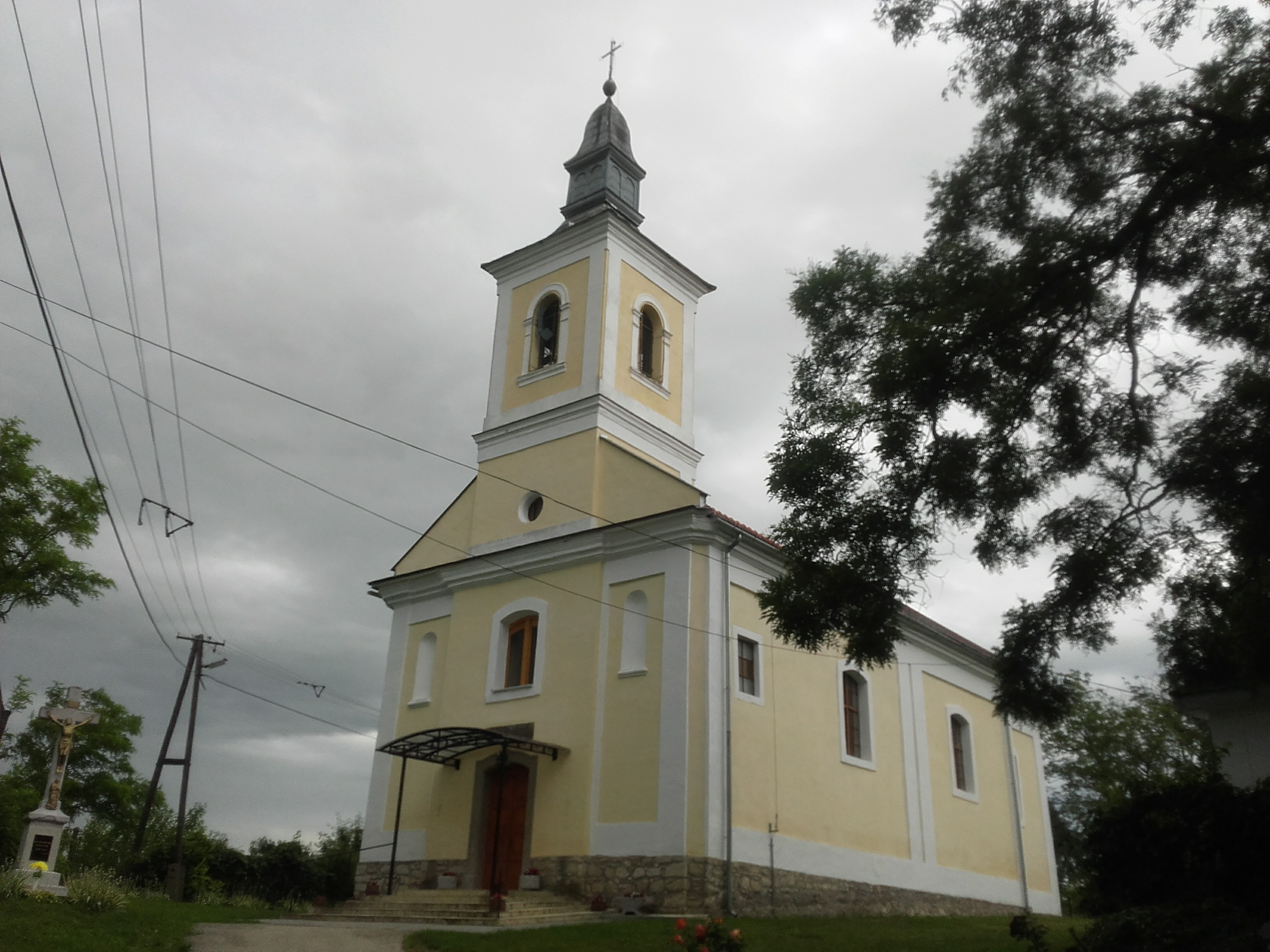 The Baroque Roman Catholic church of Hernádkércs, Hungary